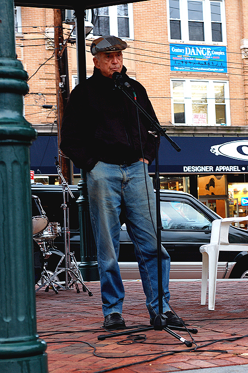 I (Clara Sherley-Appel) took this picture on Oct. 28, 2006 at the 3rd Annual Staten Island Freedom & Peace Festival